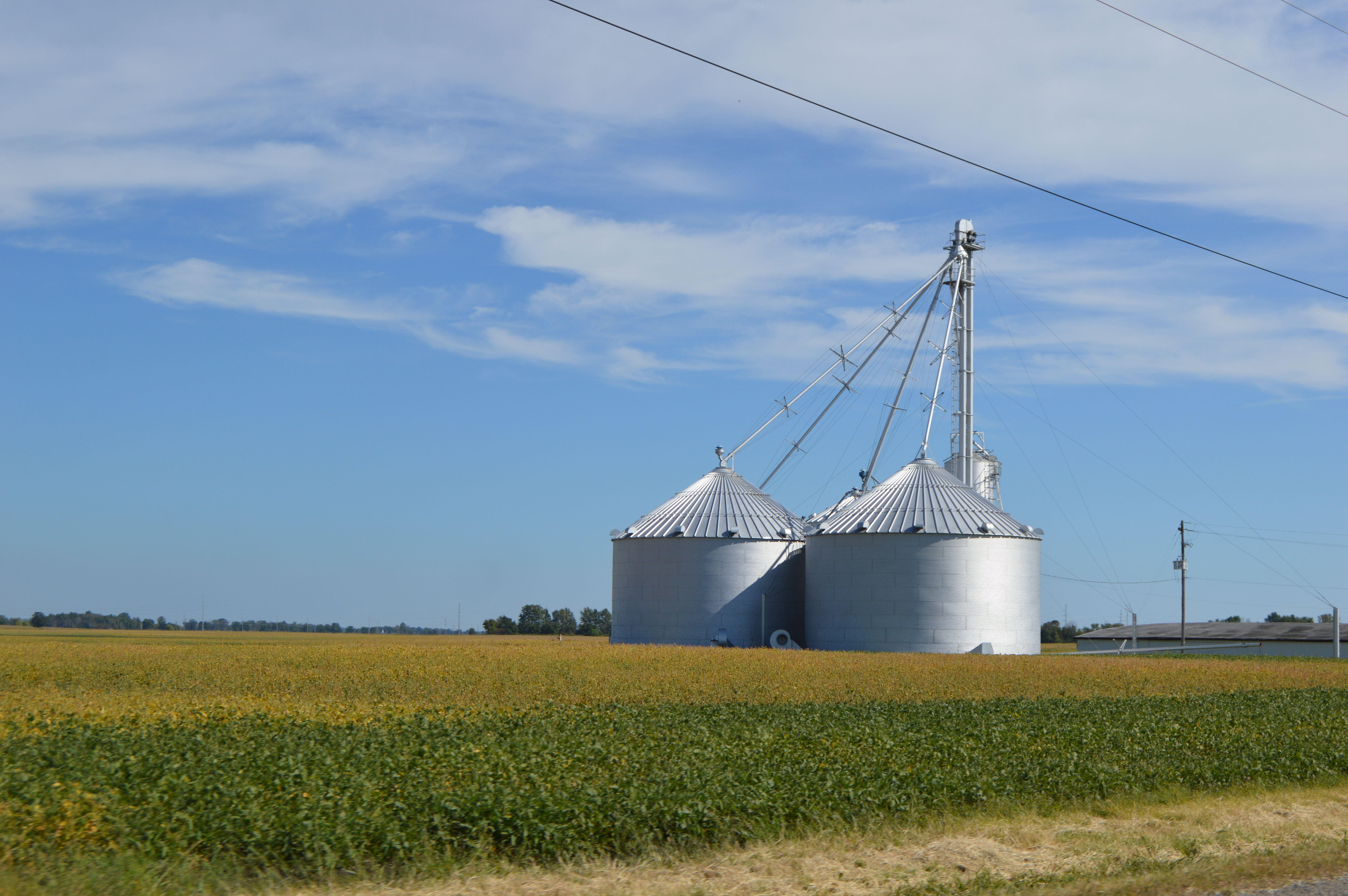 Fields and a farmstead on the eastern side of State Route 37 approximately one mile north of Richwood in Claibourne Township, Union County, Ohio, United States.